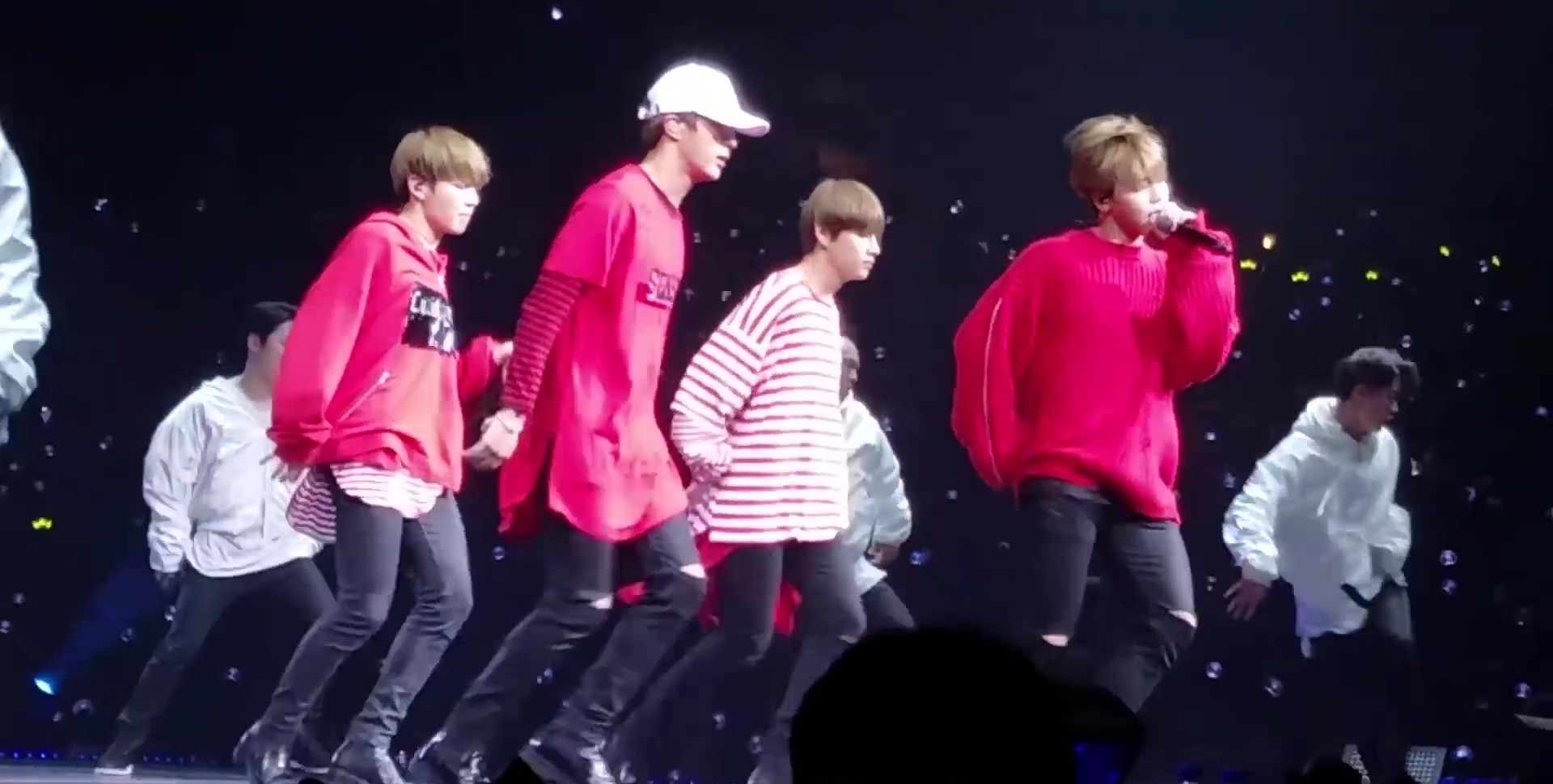 BTS performing "Lost" during the BTS Live Trilogy Episode III The Wings Tour in Anaheim, 2 April 2017